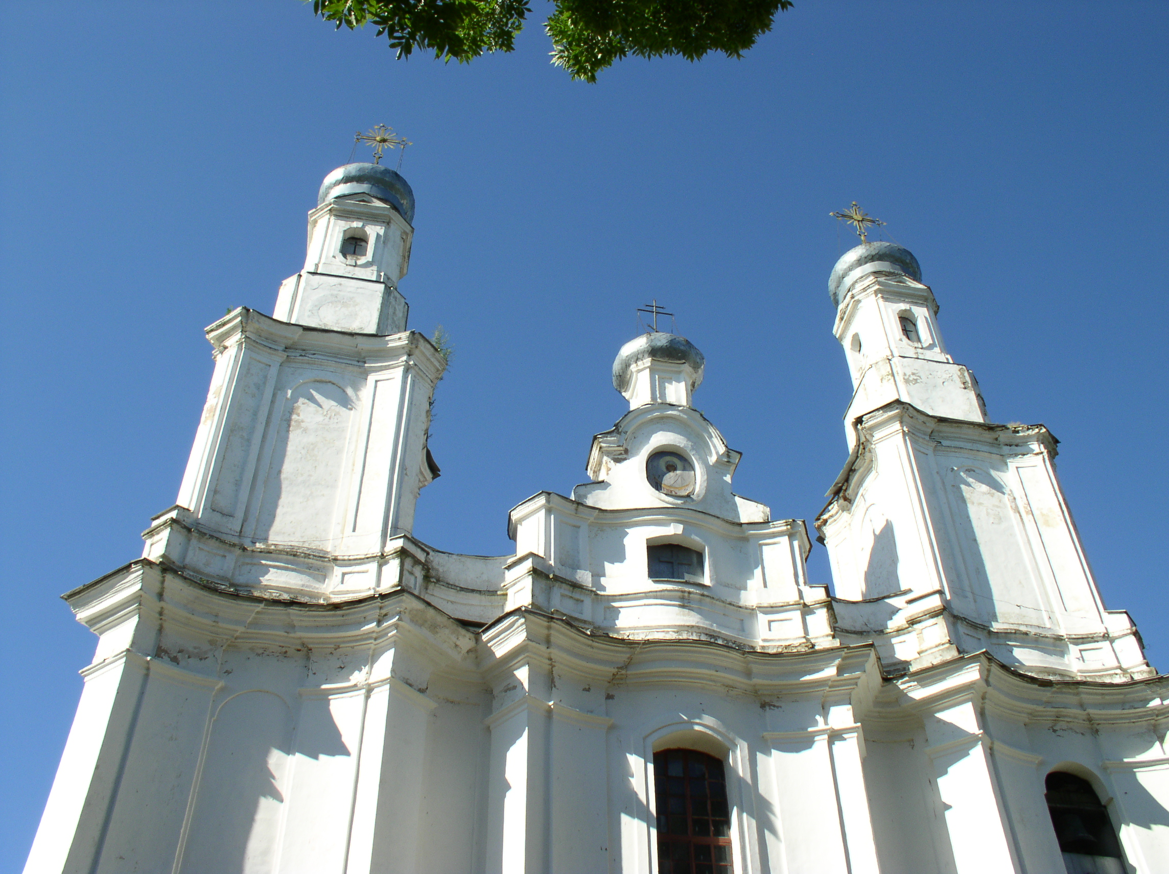 Church of the Protection of Our Lady, Talachyn, Belarus.